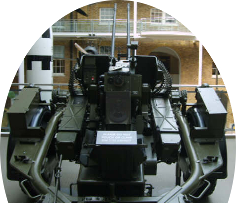 An Argentine Rheinmetall 20 mm Twin Anti-Aircraft Cannon in the Imperial War Museum, donated by the British Army after the Falklands War